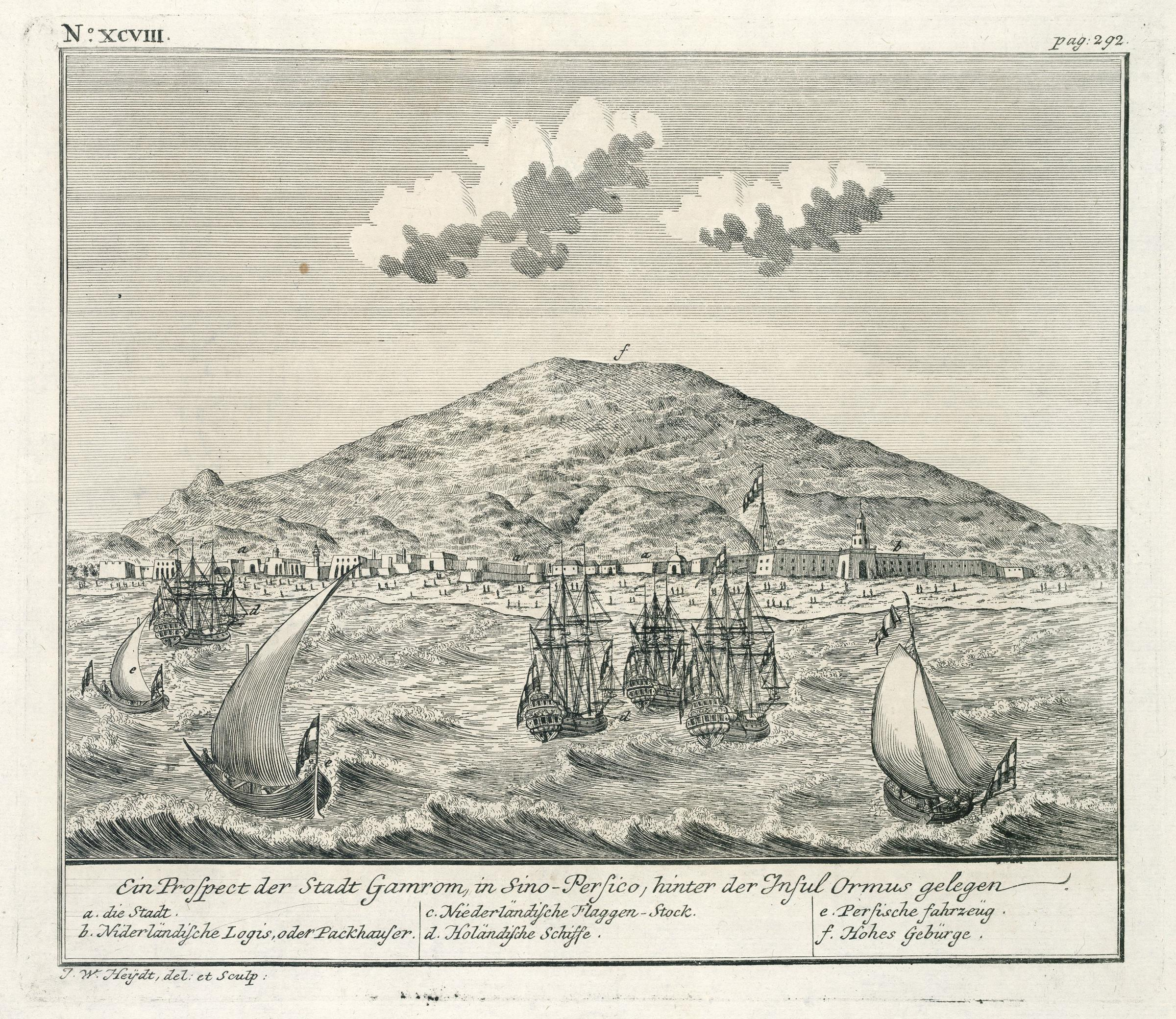 View of the city of Gamron. Ein Prospect der Stadt Gamrom, in Sino-Persico, hinter der Insul Ormus gelegen. Top left: No: XCVIII. Top right: pag. 292. Key: a. die Stadt. / b. Niderländische Logis, oder Packhauser. / c. Niderländische Flaggen-Stock. / d. Holändische Schiffe. / e. Persische fahrzeüg. / f. Hohes Gebürge.